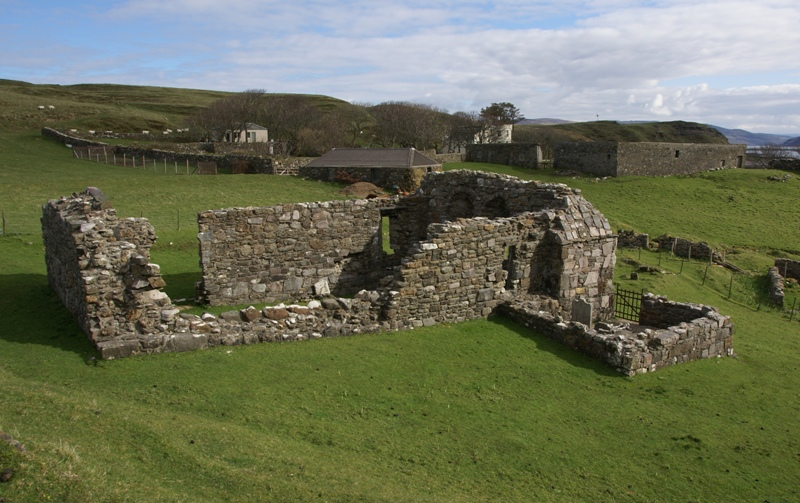 Inchkenneth Chapel, Inch Kenneth, Argyll and Bute, Scotland. View from south west.